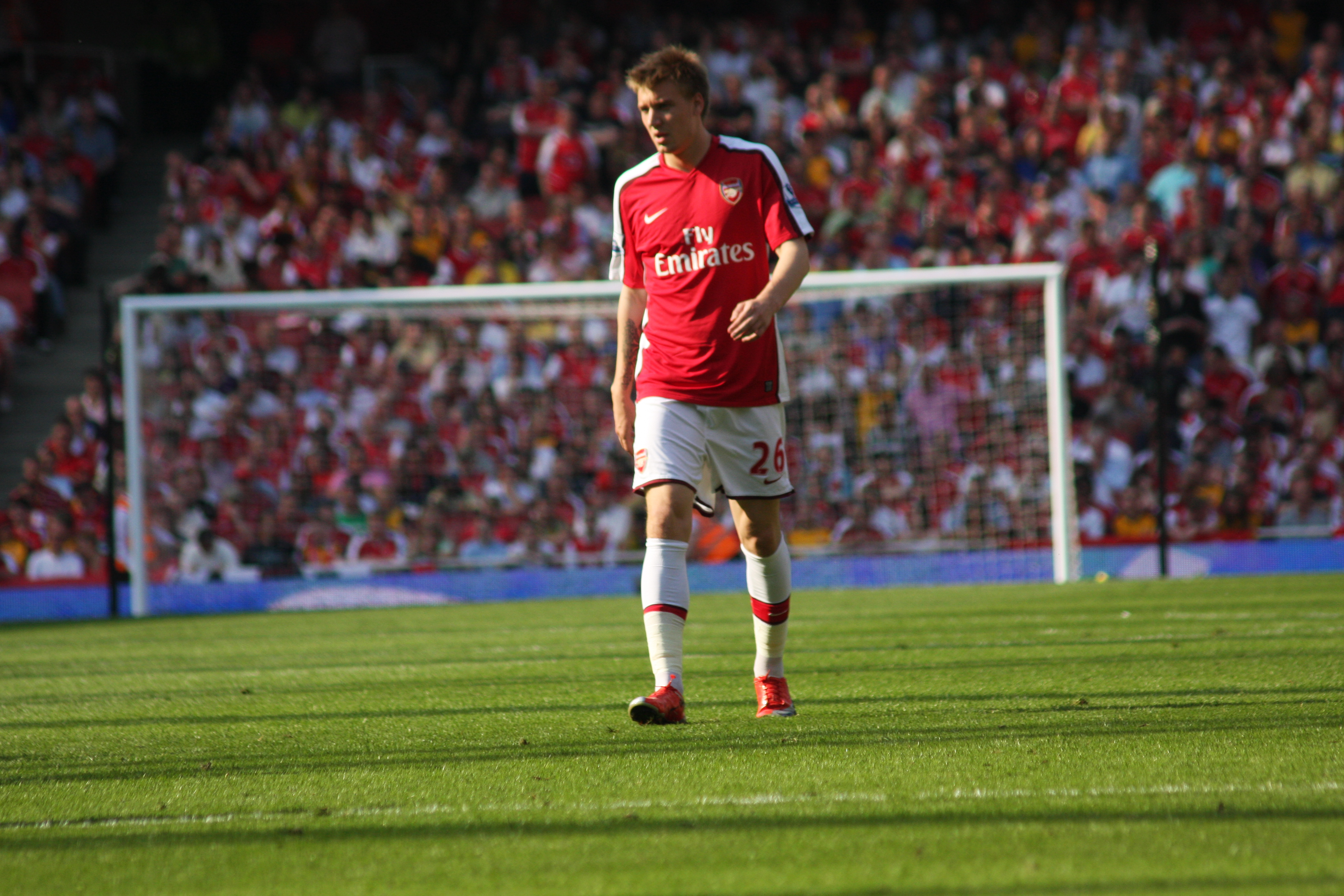 Nicklas Bendtner, Arsenal vs Stoke City, May 2009